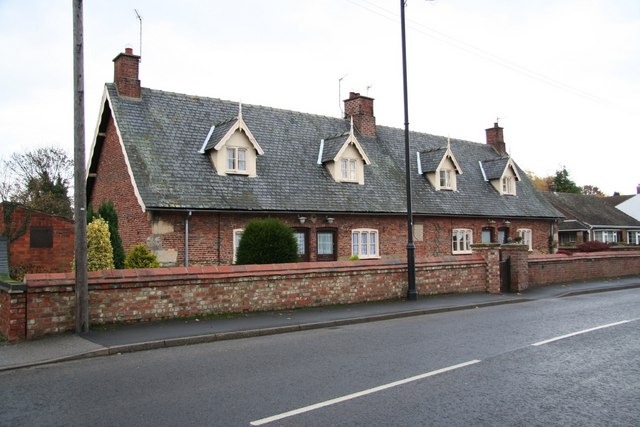 St.Poll Hospital. Founded in 1612 by Sir George St.Poll of Snarford 425224 for eight indigent men. The building is now 4 almshouses